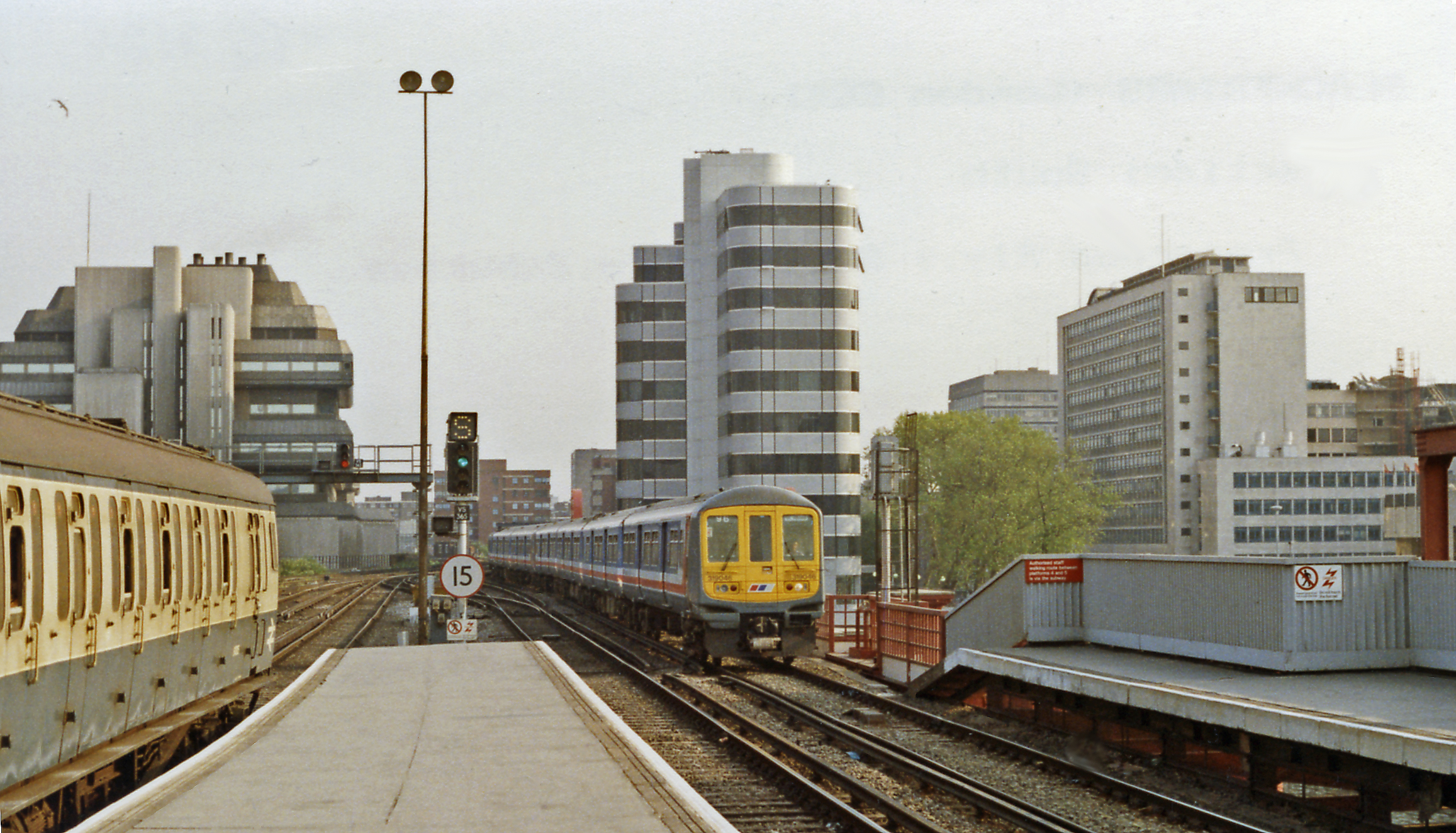 Blackfriars Station, looking south across to Blackfriars Junction, 1989. View south from Platforms 3/4: ex-SE&C station. Berthed on the left at (terminal) Platform 3 is a 4-EPB EMU, while approaching is a new Class 319 dual-voltage EMU arriving on one of Thames-Link services introduced in May 1988, about to call at Platform 5 on its way northward through the reopened Snow Hill tunnel. A short way ahead the lines to Elephant & Castle, Herne Hill etc. go straight on and those to Metropolitan Junction, London Bridge etc. turn left.